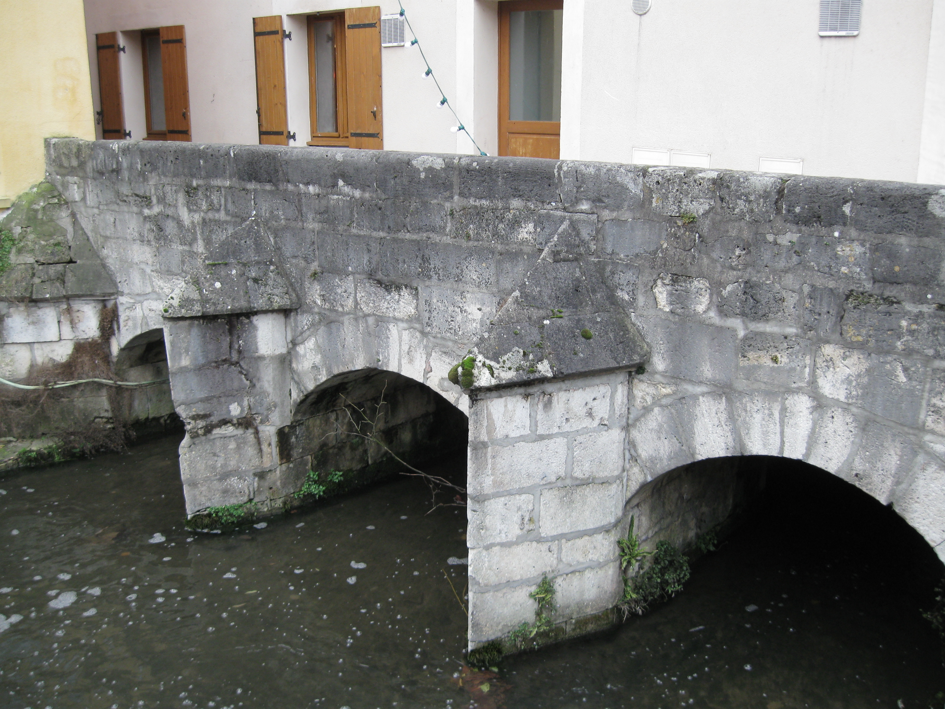 Bridge called Pont du Moulin de la Pêcherie, linking rue de l'Ancien Palais and Place Jules Ferry